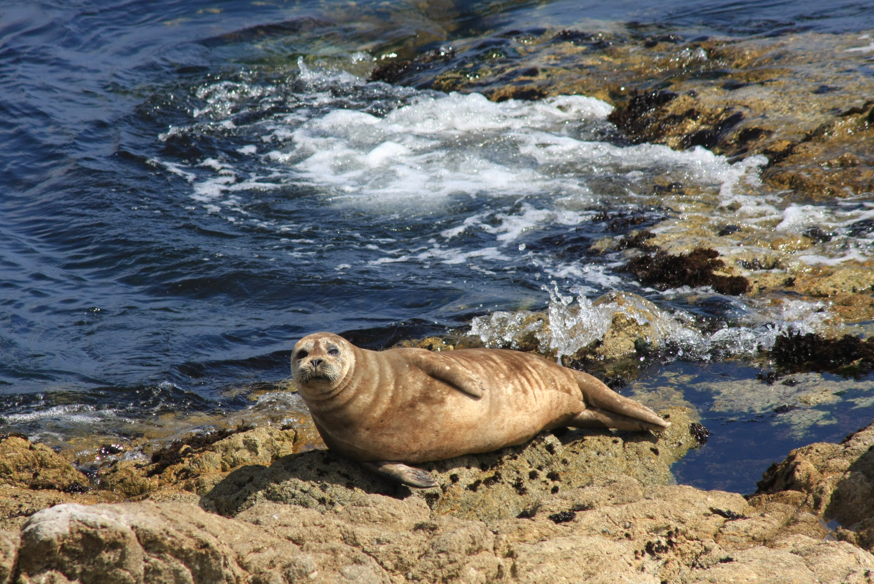 Seal looking up from resting rock. The sea swirling behind. Photo taken from Sunset Point, 17-Mile Drive, Monterey, California, USA.